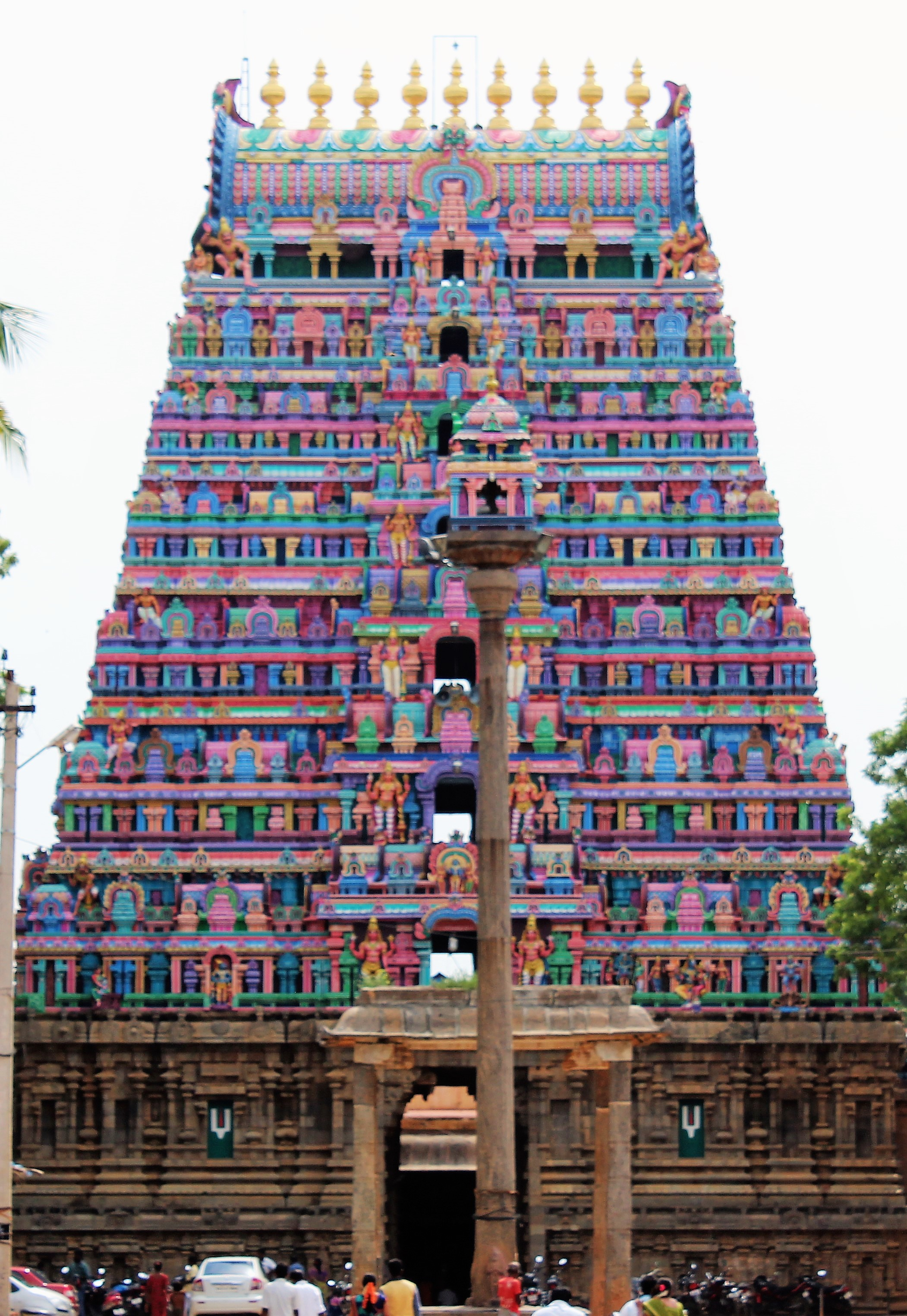 Srimushnam Bhuvarahaswamy temple